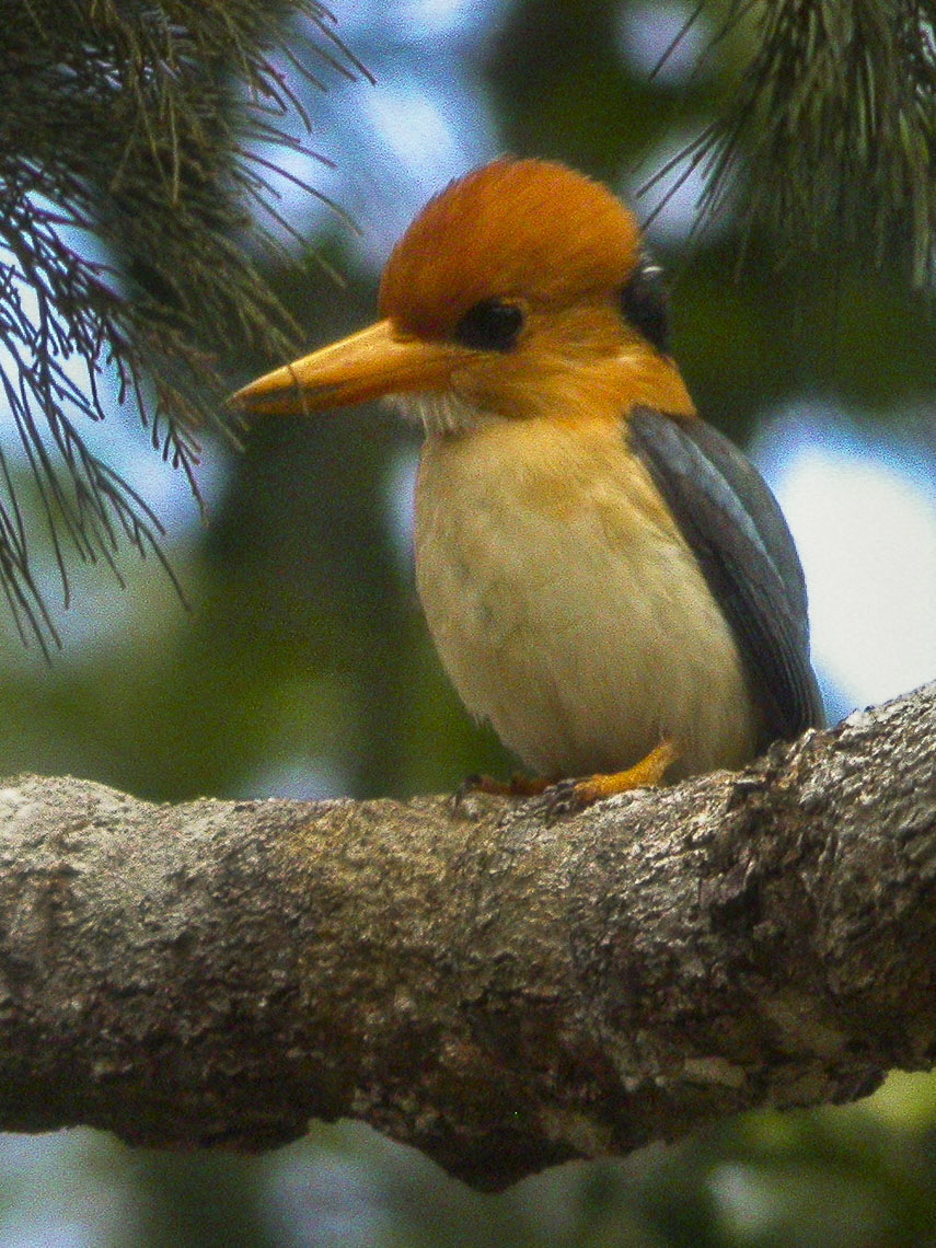 Yellow-billed Kingfisher - Papua NG